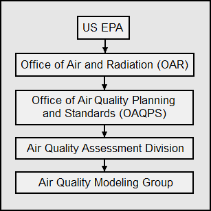 This diagram depicts where the Air Quality Modeling Group (AQMG) fits into the organization of the US Environmental Protection Agency (US EPA).